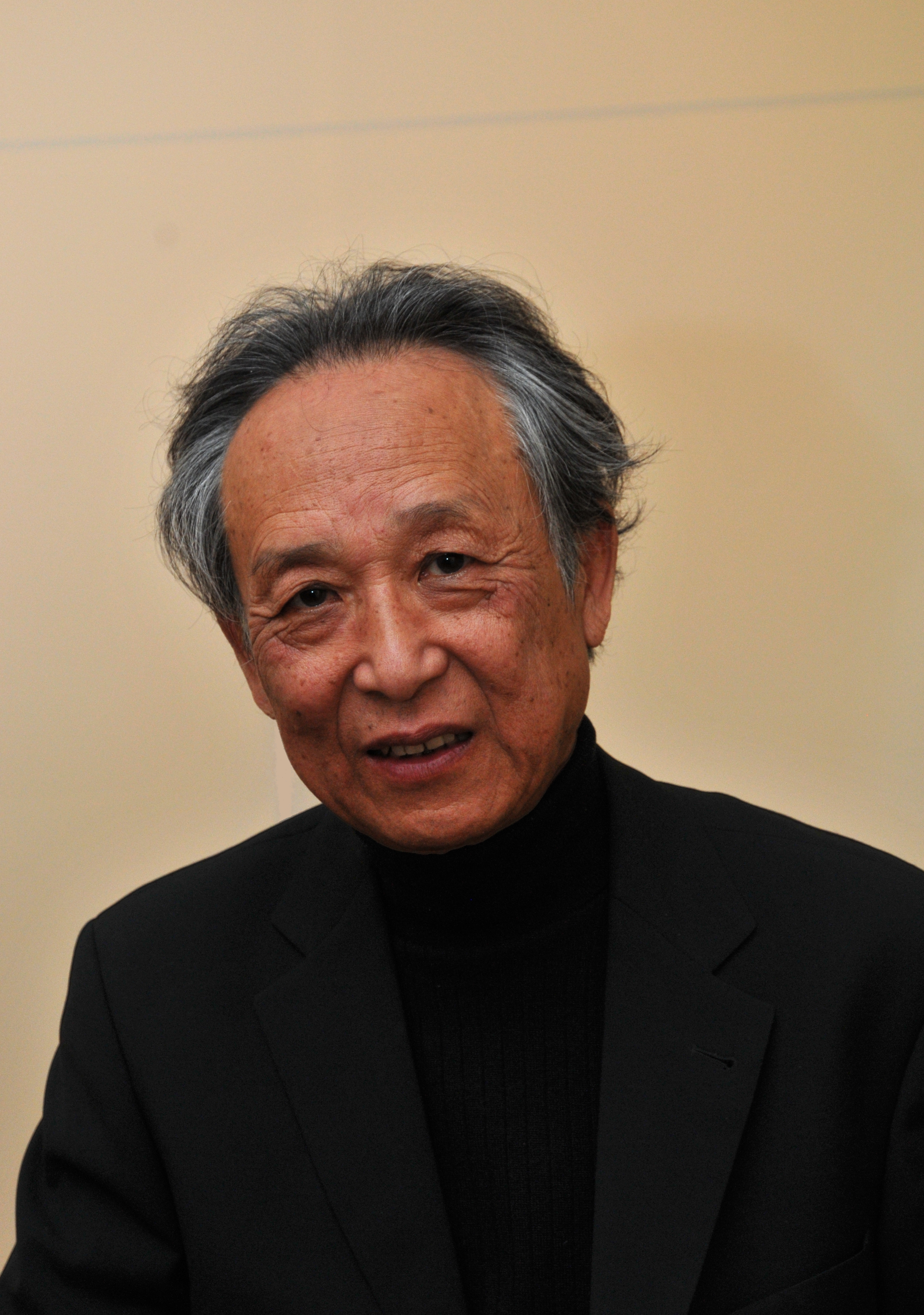 Gao Xingjian, Nobel laureate in Literature, at Galerie Simoncini in Luxembourg, September 2012.